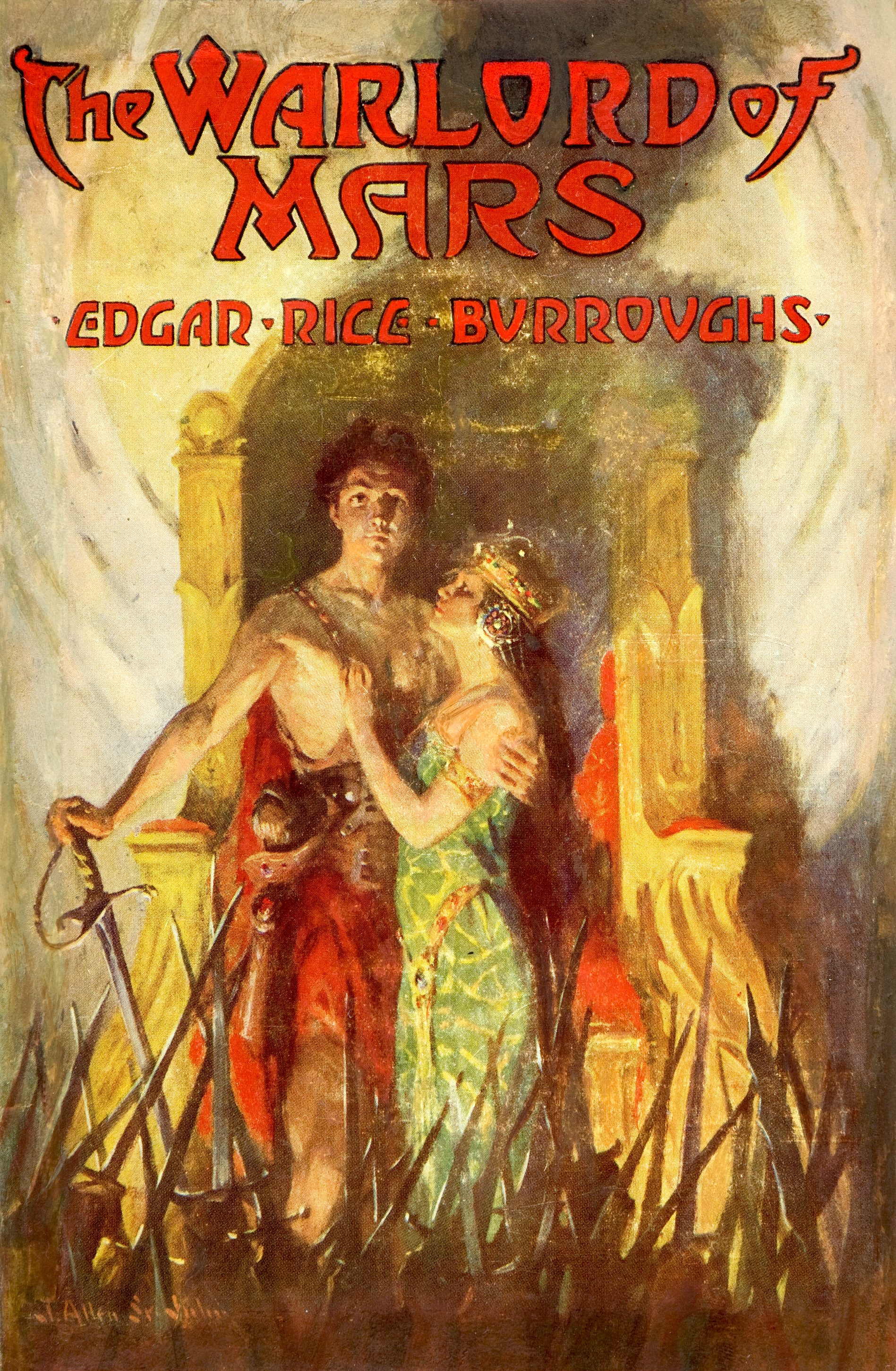 Cover art by J. Allen St. John from The Warlord of Mars by Edgar Rice Burroughs, McClurg, 1919.